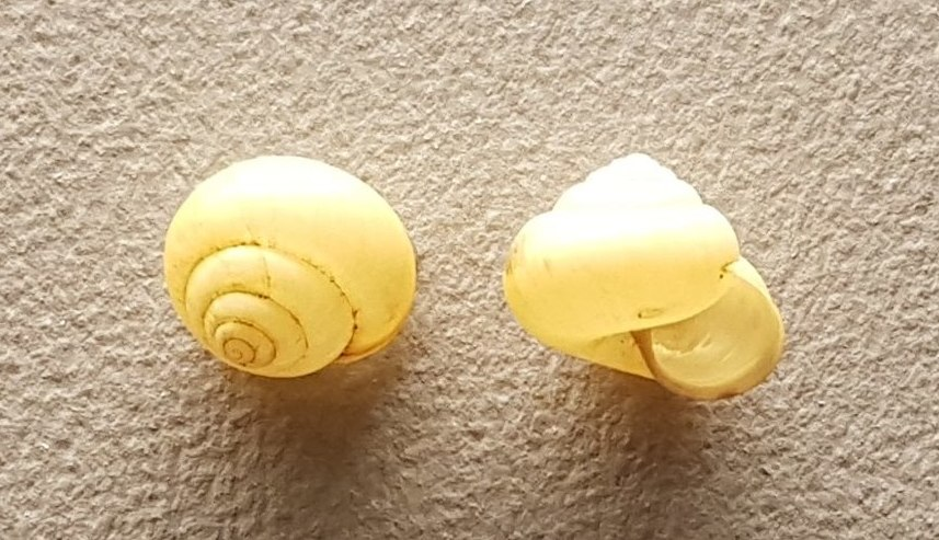 Specimen at Natural History Museum, Gothenburg.